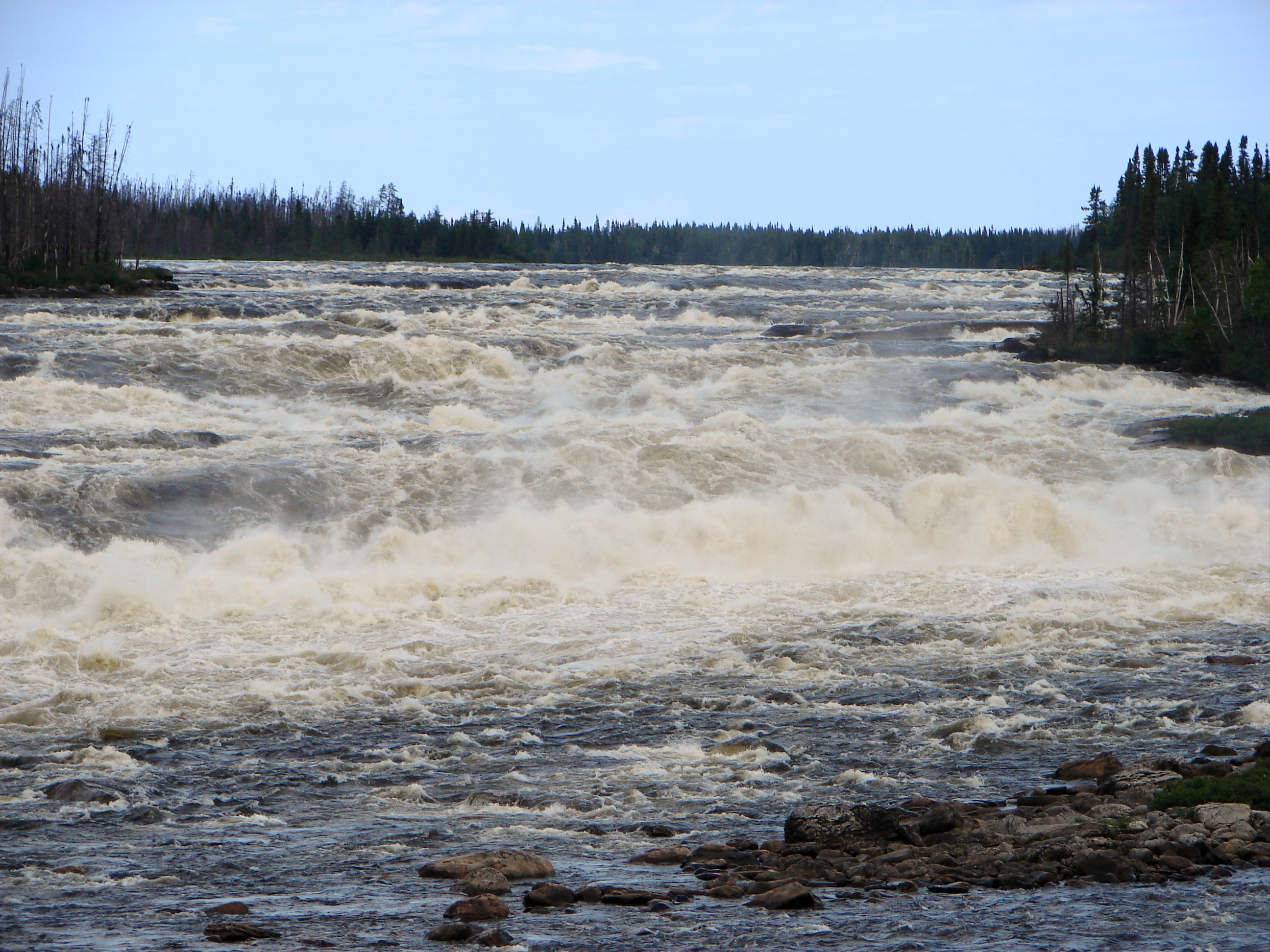 Oatmeal Rapids on the Rupert River, Quebec, Canada.